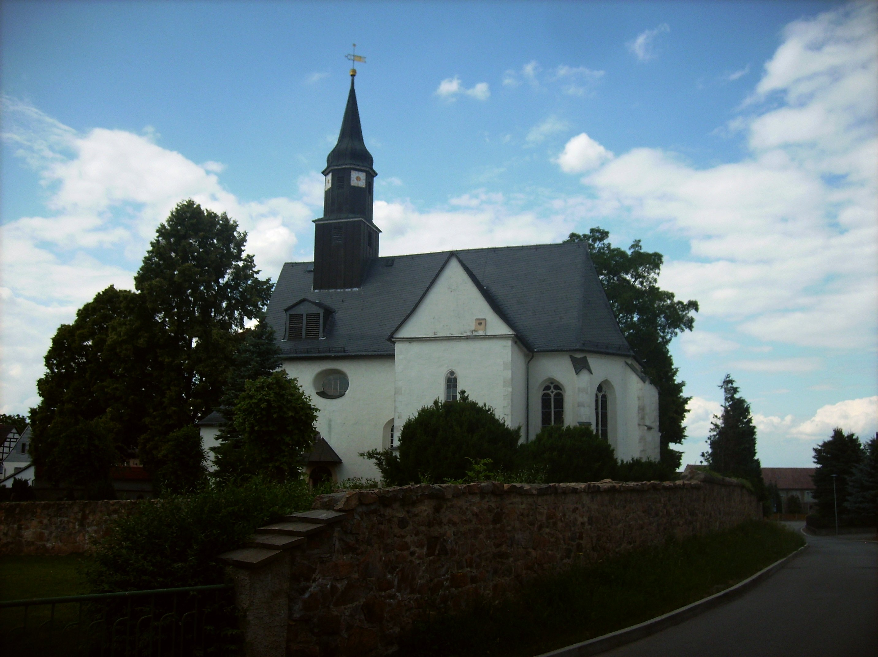 Church of the village of Eschefeld (Frohburg, Leipzig district, Saxony)